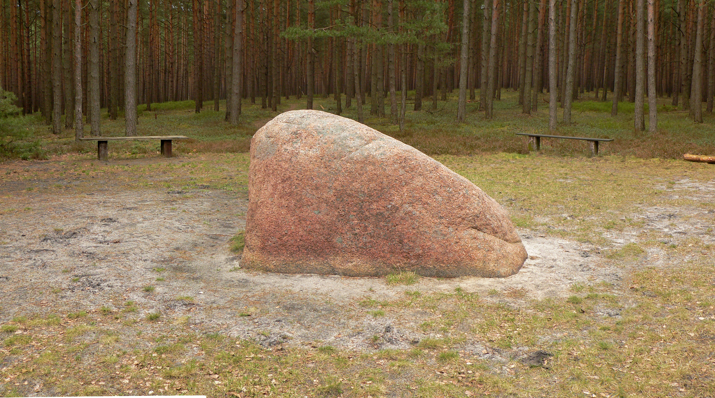 The “Bickelstein”, an erratic boulder consisting of alkali feldspar granite, Gifhorn county, eastern Lower Saxony, Germany.